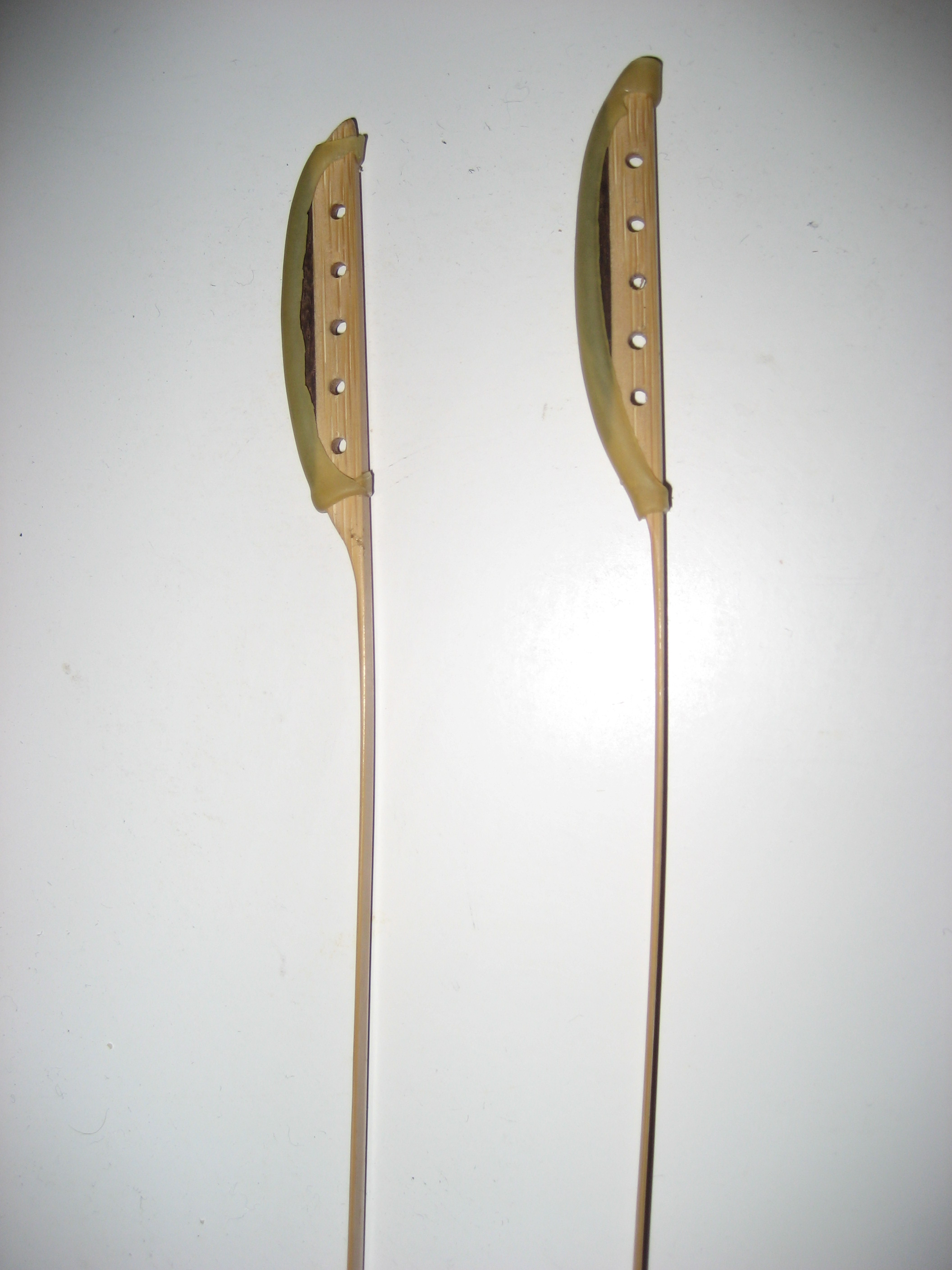 A picture of a Yangqin's strikers, user for playing the instrument